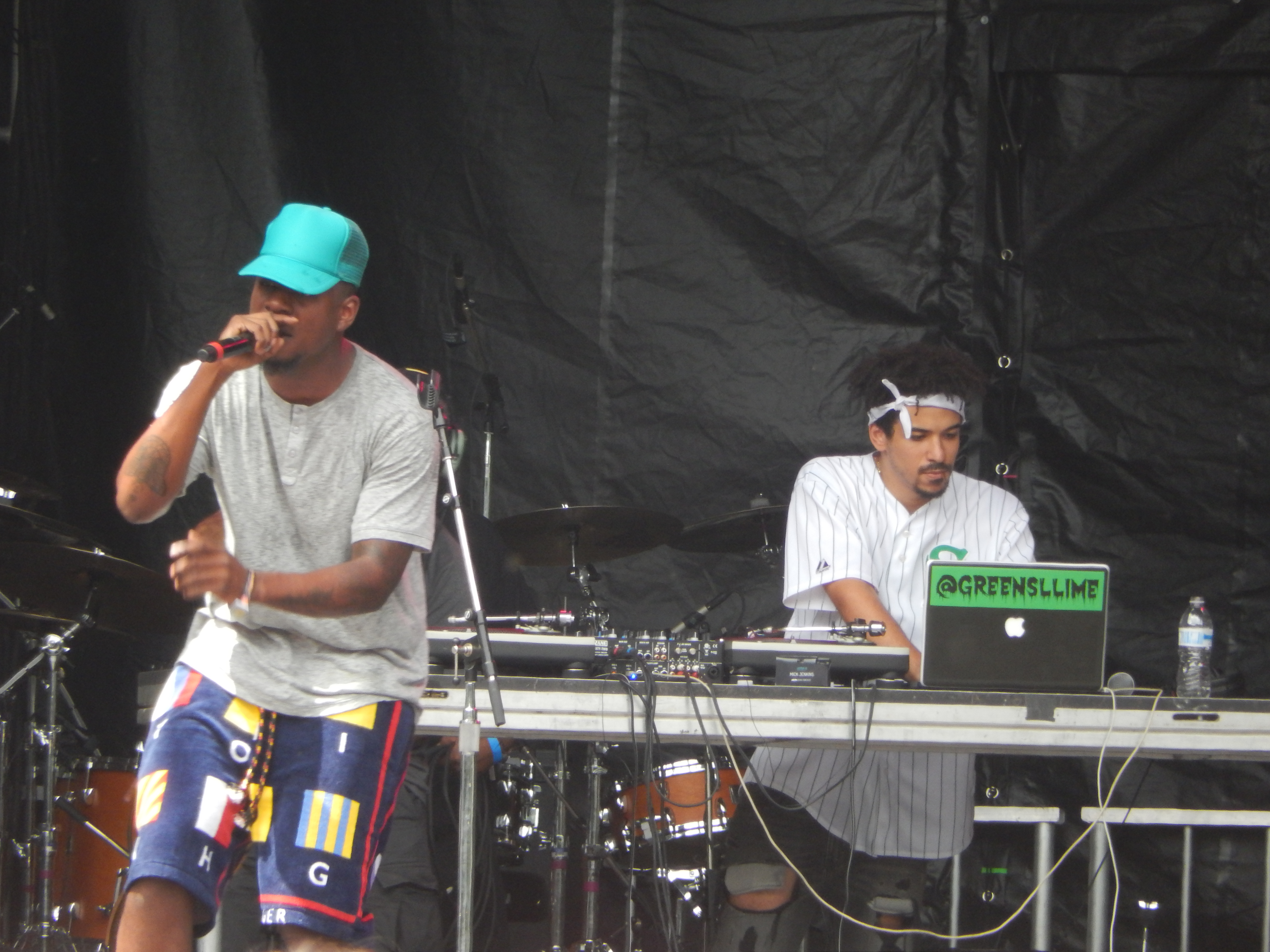 Rapper Mick Jenkins performing at Lollapalooza in Chicago on August 1, 2015.